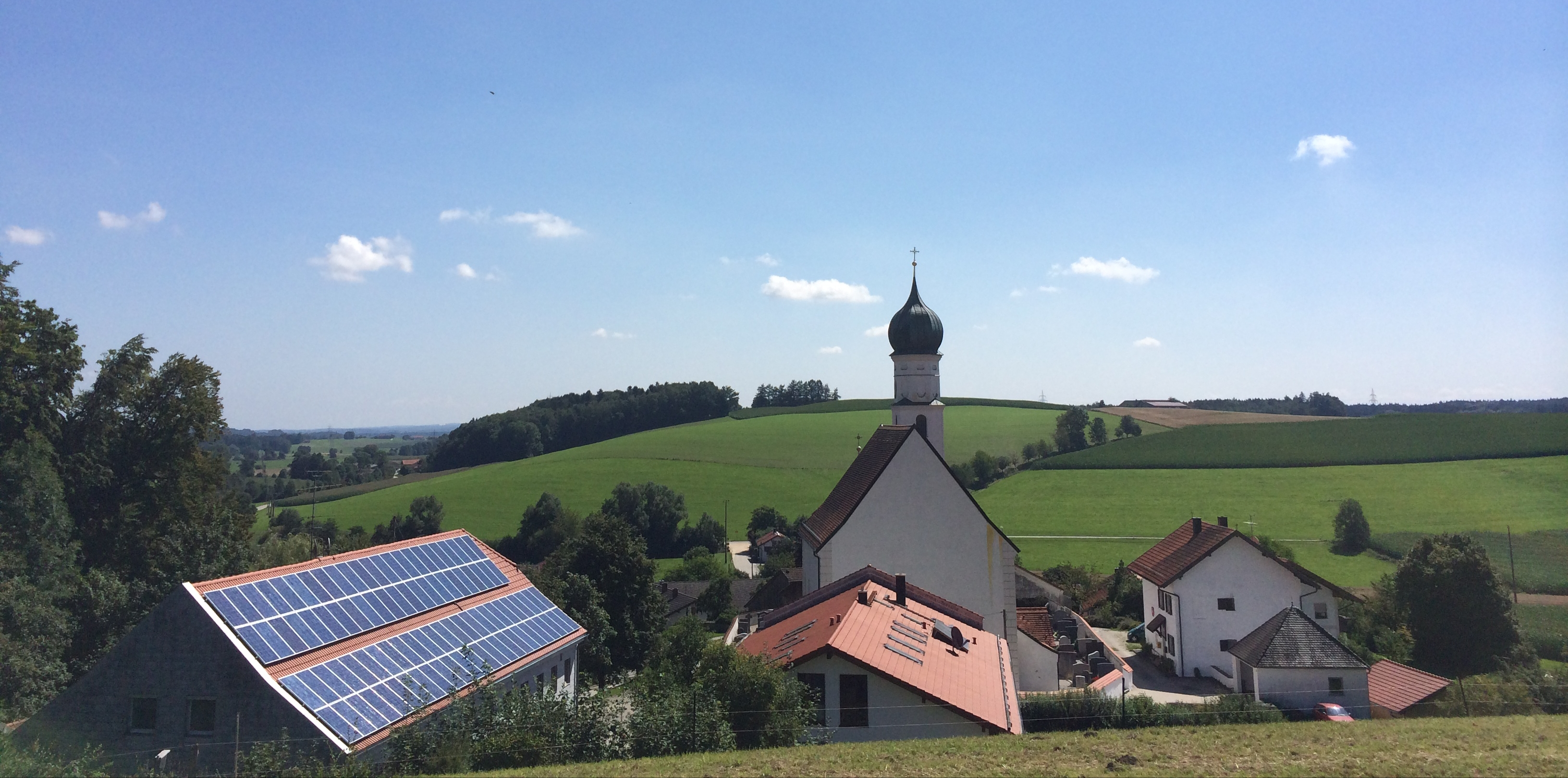 View over St. Christoph near Steinhöring, Bavaria